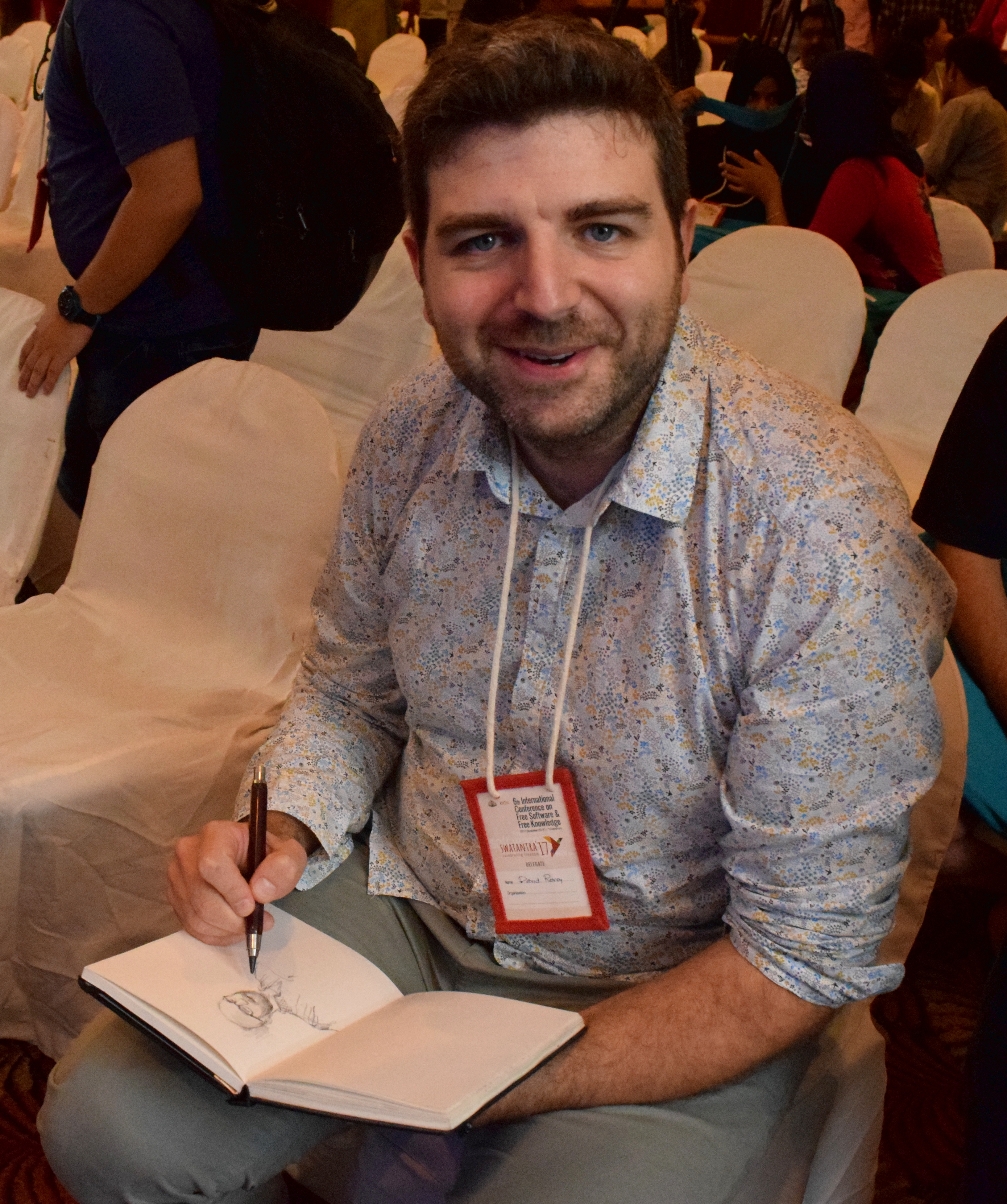 David Revoy, Creator of Pepper and Carrot webcomic, at Swatantra 2017 Thiruvananthapuram, Kerala, India